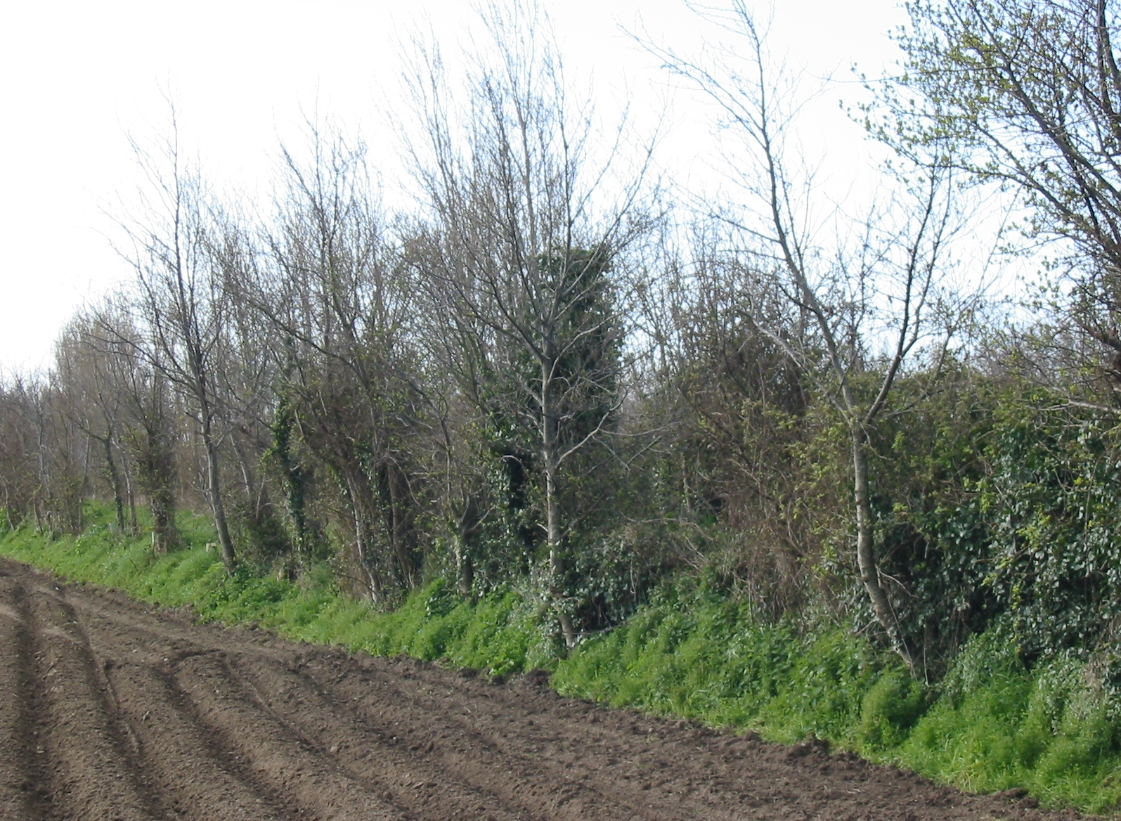 Jersey Nrf: Jèrri